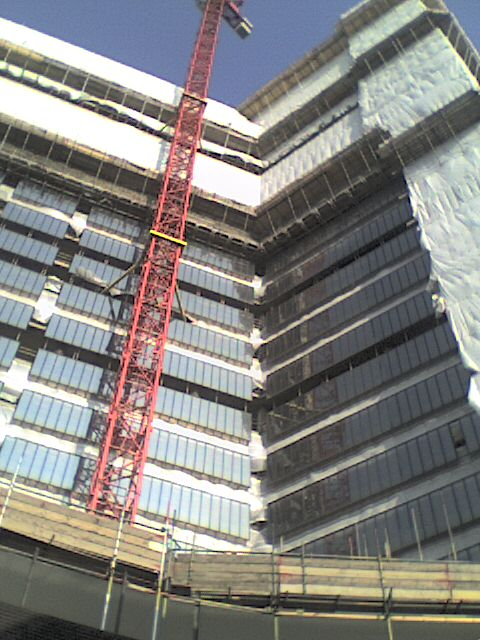 Southwark Towers at London Bridge is being demolished. The site will be used for the "Shard of Glass" tower.